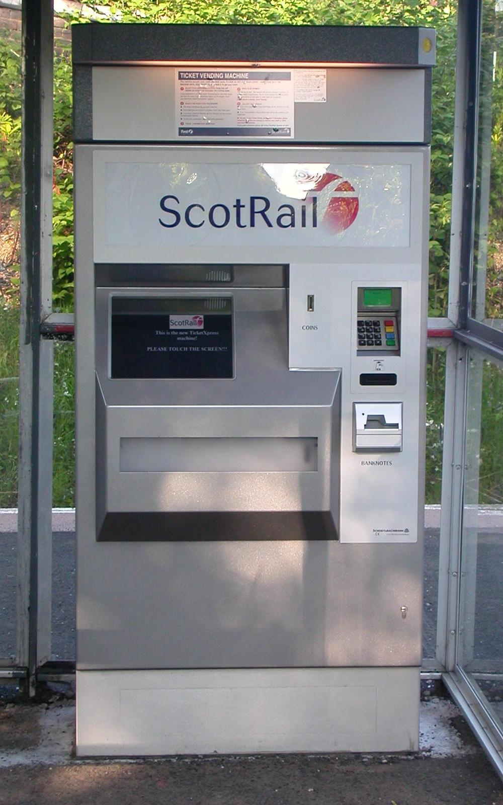 A Scheidt & Bachmann Ticket XPress Machine self-service railway ticket issuing machine at Shawlands railway station, Glasgow. This machine is numbered 3006 and is in the livery of the First ScotRail train operating company.